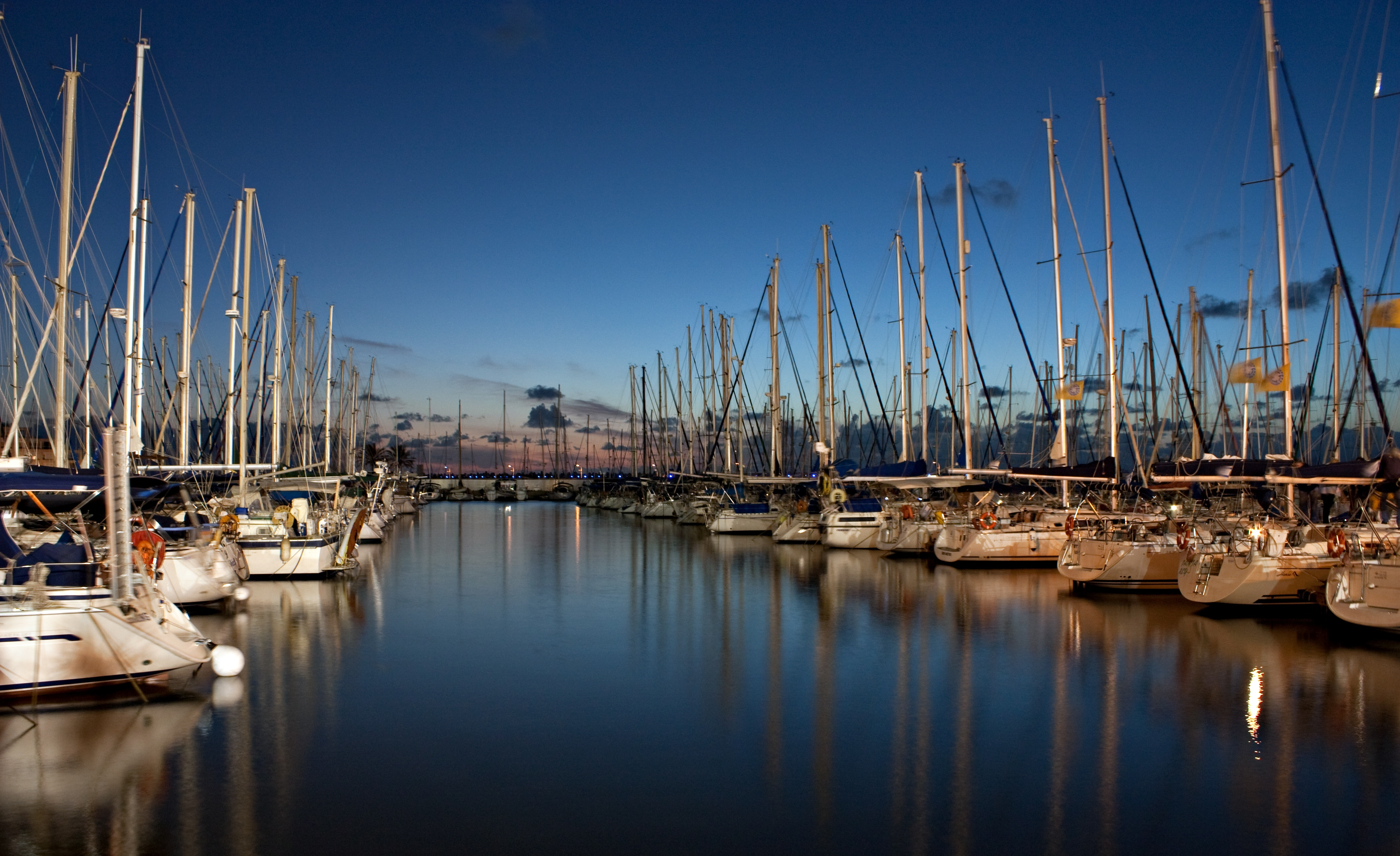 The Marina of Herzeliya, Israel